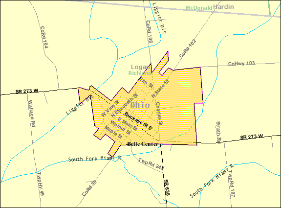 Map of Belle Center, a village in Logan County, Ohio, United States, with its boundaries at the time of the 2000 census.